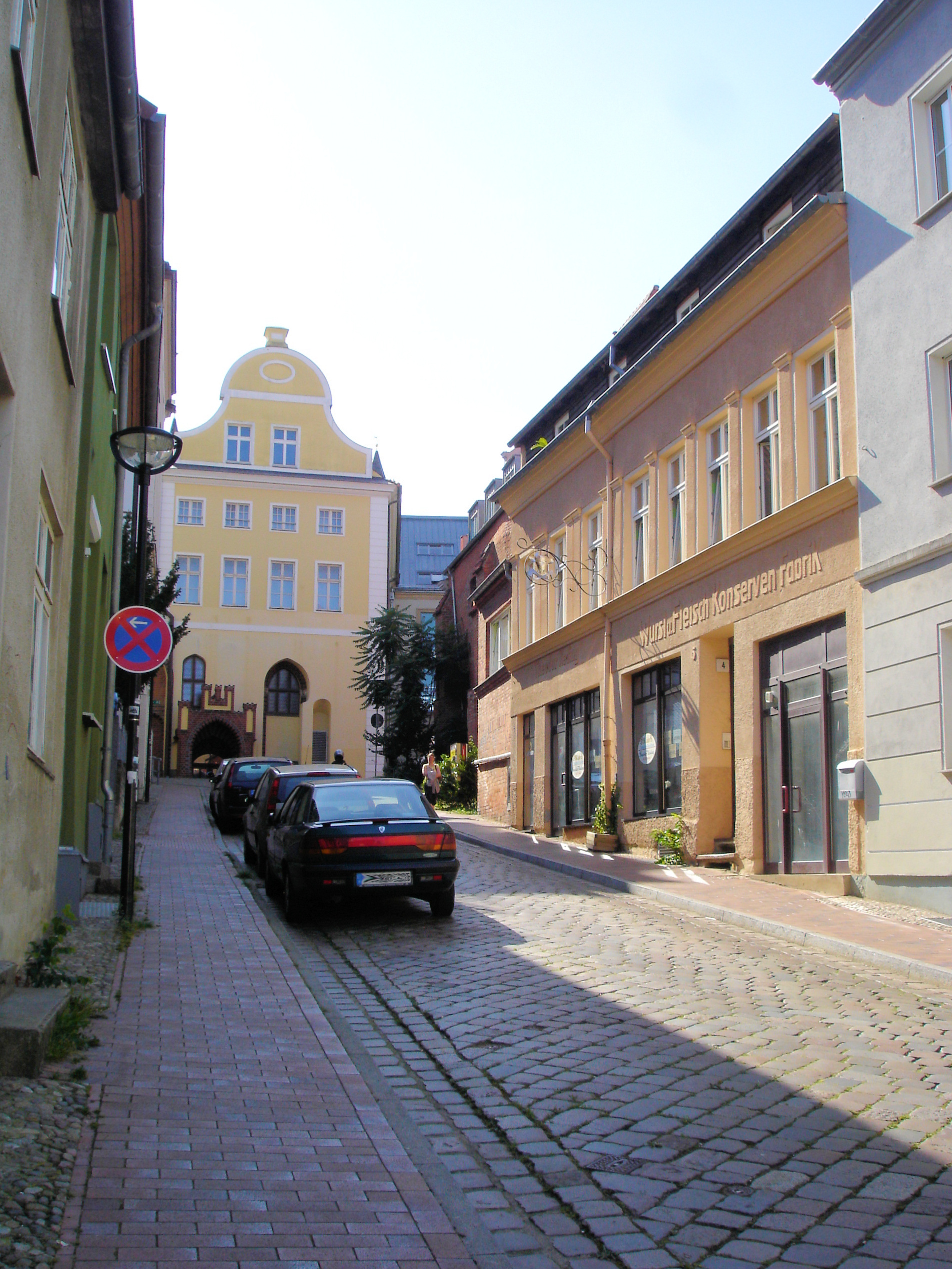 Street in the historic city of Rostock